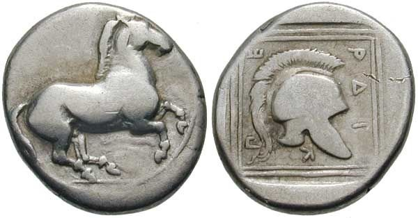 Perdikkas II (451-413 BCE). Tetrobol. Obv: Horse galloping right. Rev: ΠΕΡΔΙΚ. Crested helmet right within double linear border within incuse square.